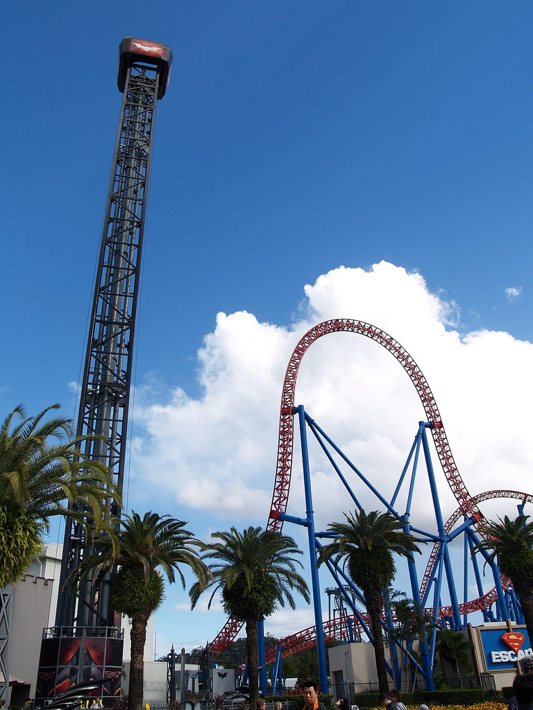 Perfect match for adrenaline junkies ;P These rides will surely make you scream the hell out of yourself!